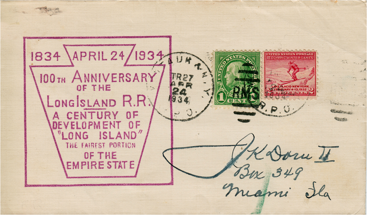 Cover commemorating the 100th anniversary of the Long Island Railroad on April 24, 1934. Cancellation: CDS "MONTAUK & N.Y. R.P.O. TR27 APR 24, 1934" with Railway Mail Service "RMS" oval killer.